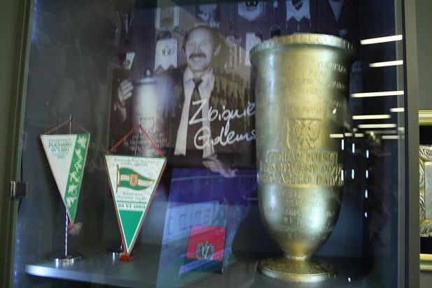 The Puchar Polski Lechia won in 1983